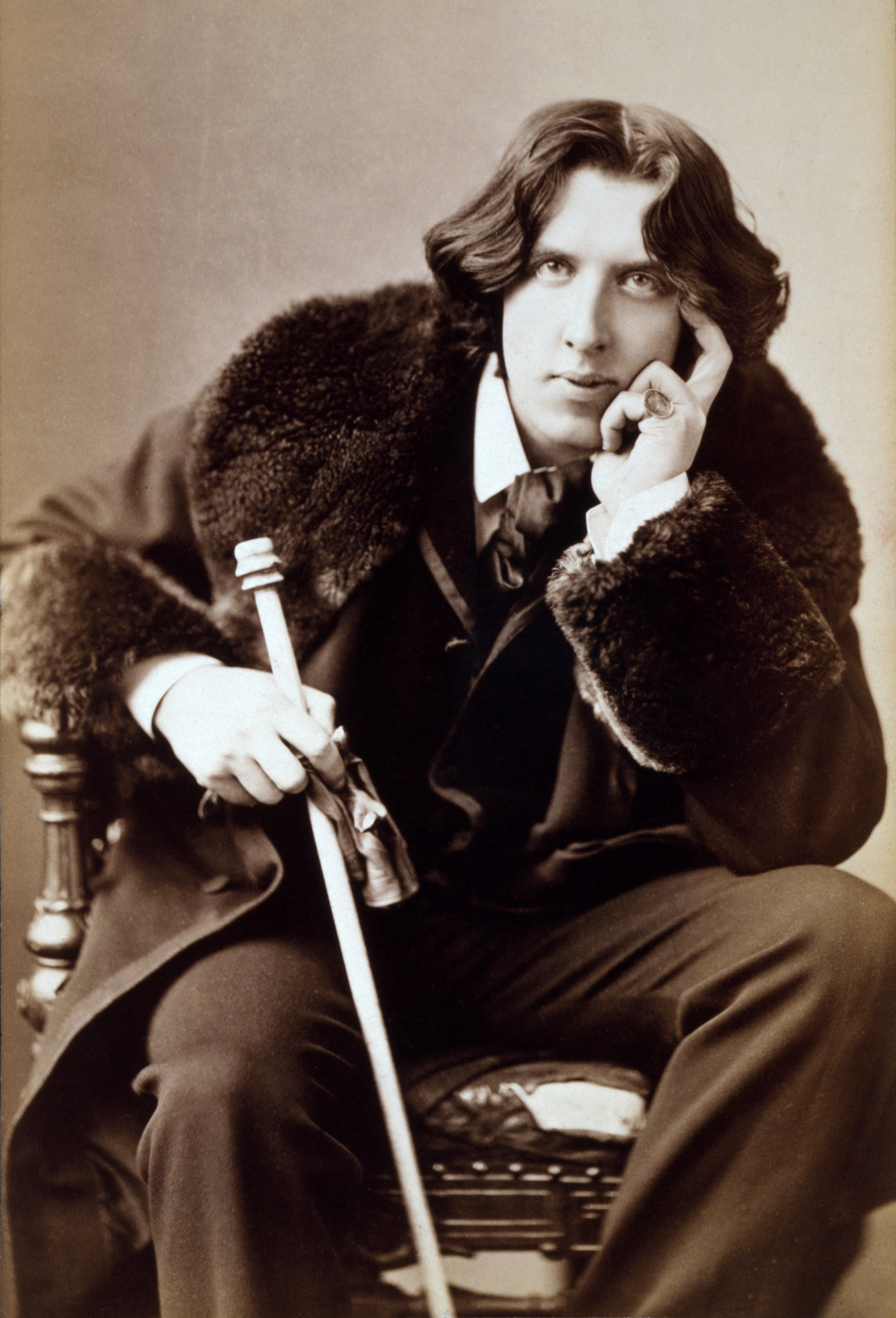 Three quarter length portrait of Oscar Wilde(en) by Napoleon Sarony(en). 1 photographic print on card mount : albumen.